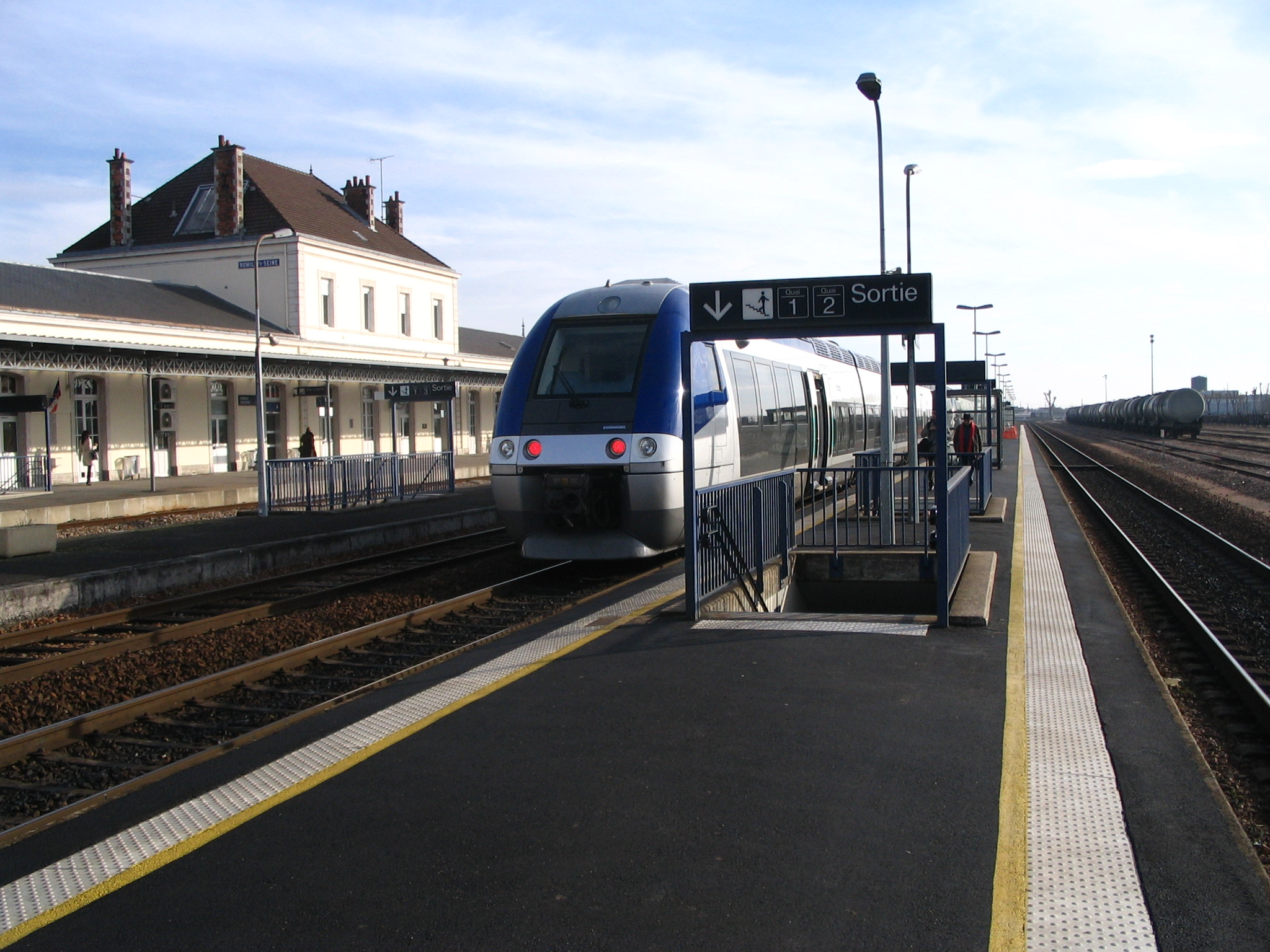 The train station of Romilly-sur-Seine, Aube, France.